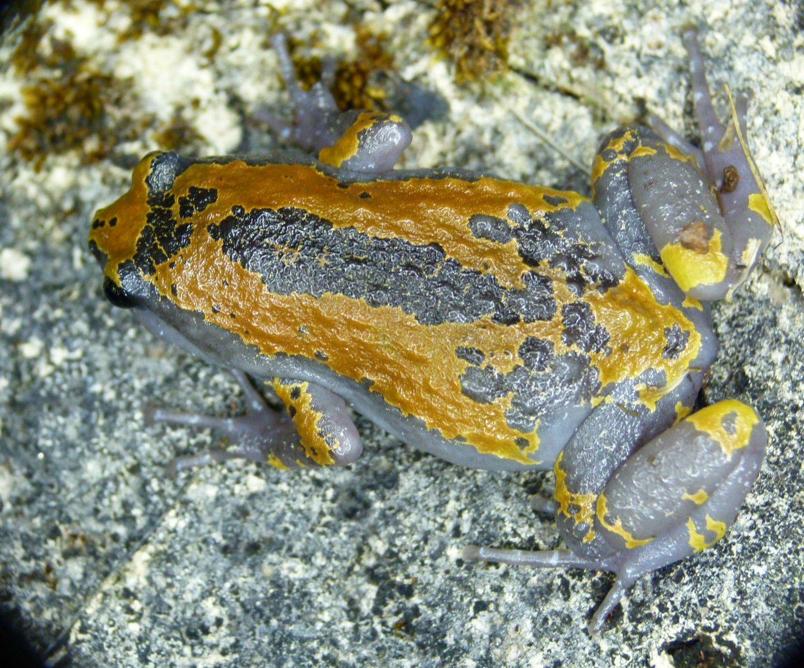 Ramanella triangularis, at Mudigere India